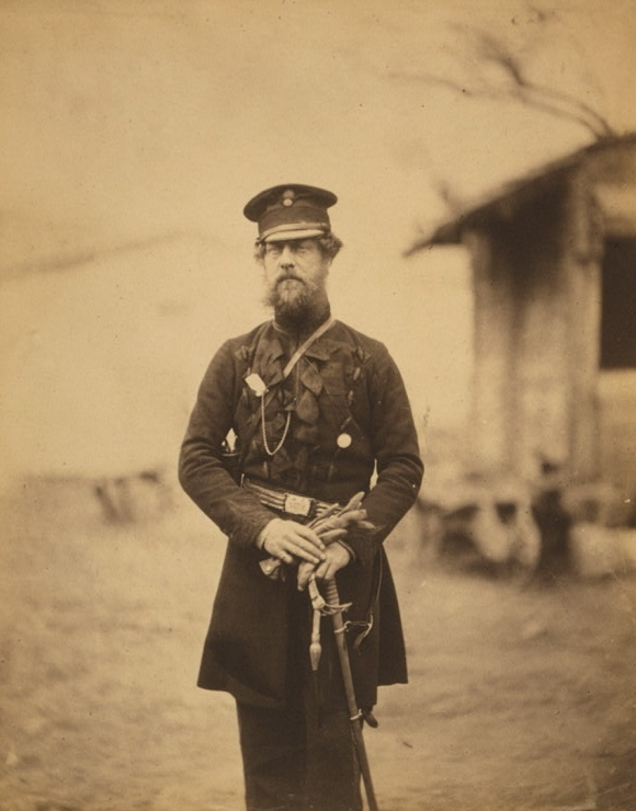 Colonel Edward Birch Reynardson, three-quarter length portrait, standing, facing front, wearing uniform with sword; he had command of the Grenadier Guards at the Battle of Inkerman